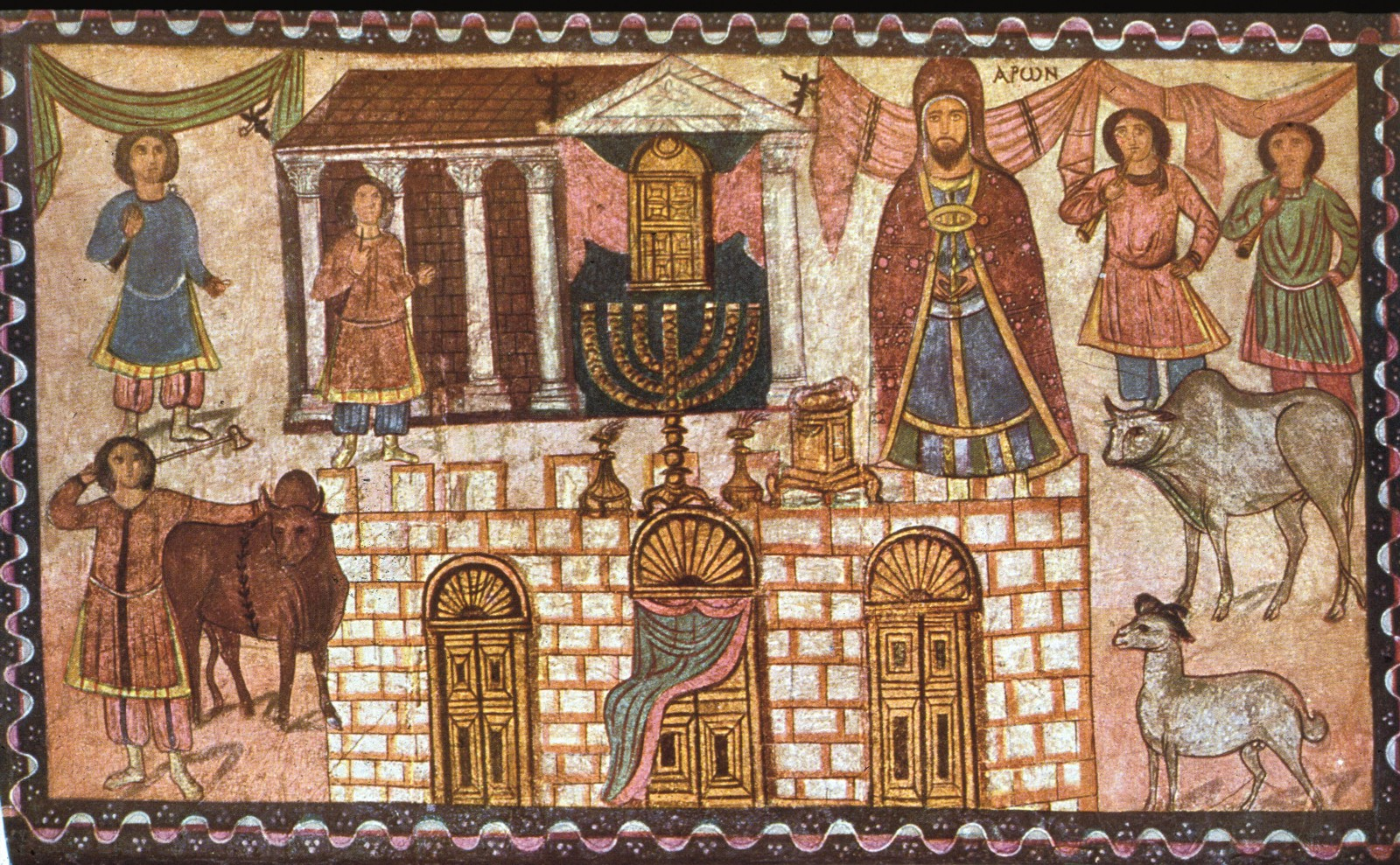 Painting of Herod's temple in the Dura-Europos synagogue